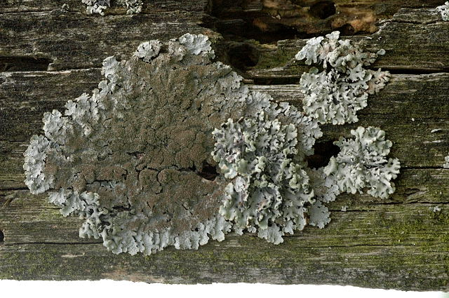 Parmelina tiliacea from Commanster, Belgium. If you think this is a different taxon, please contact James Lindsey.